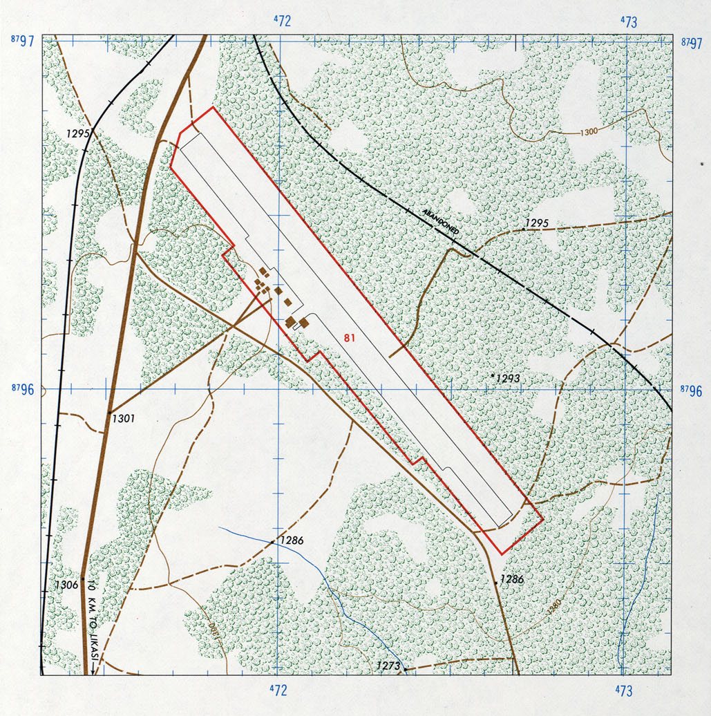 Map of city of Likasi, Zaire (now Democratic Republic of the Congo), and vicinity